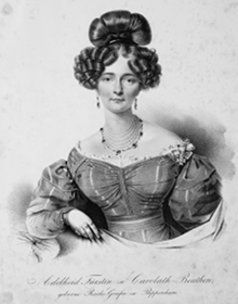 Portrait of Adelheid von Carolath-Beuthen around 1830